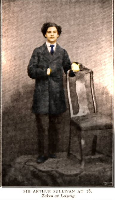 Sir Arthur Sullivan at 18, taken at Leipzig